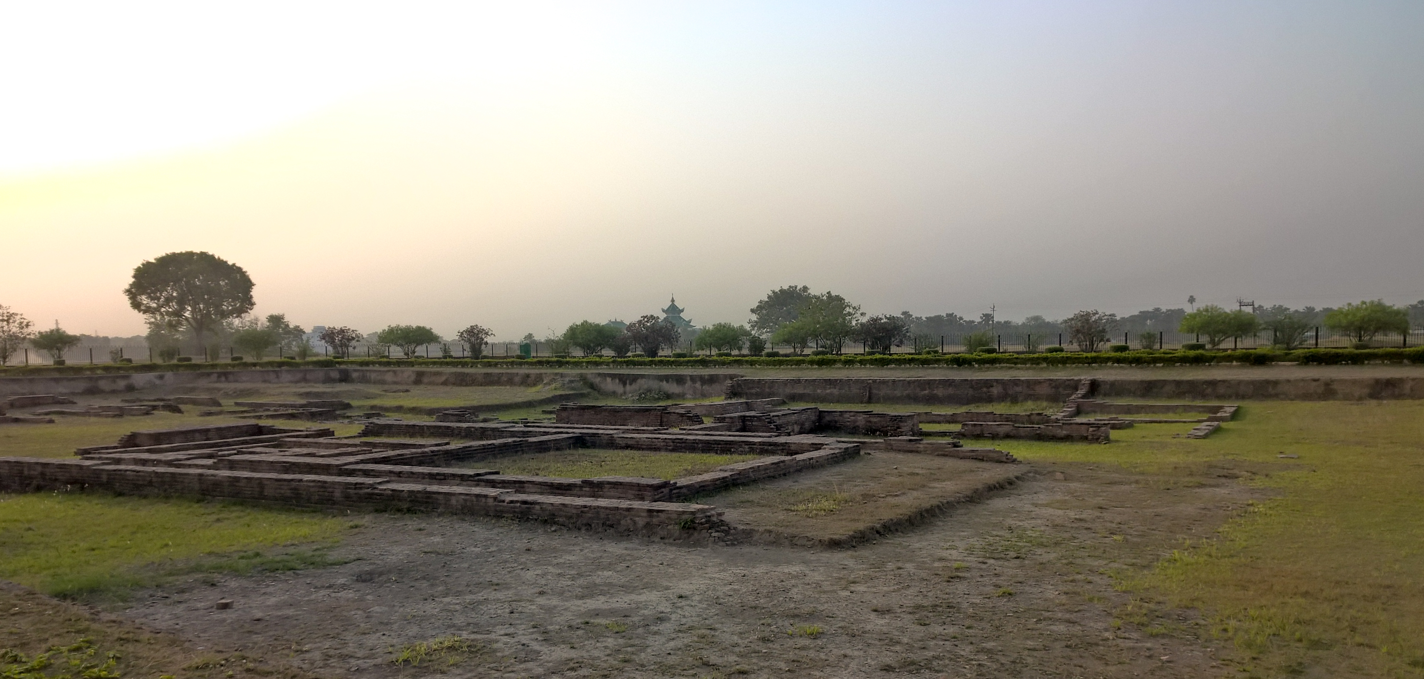 Site of Raja Vishal's Garh at Vaishali, Bihar.